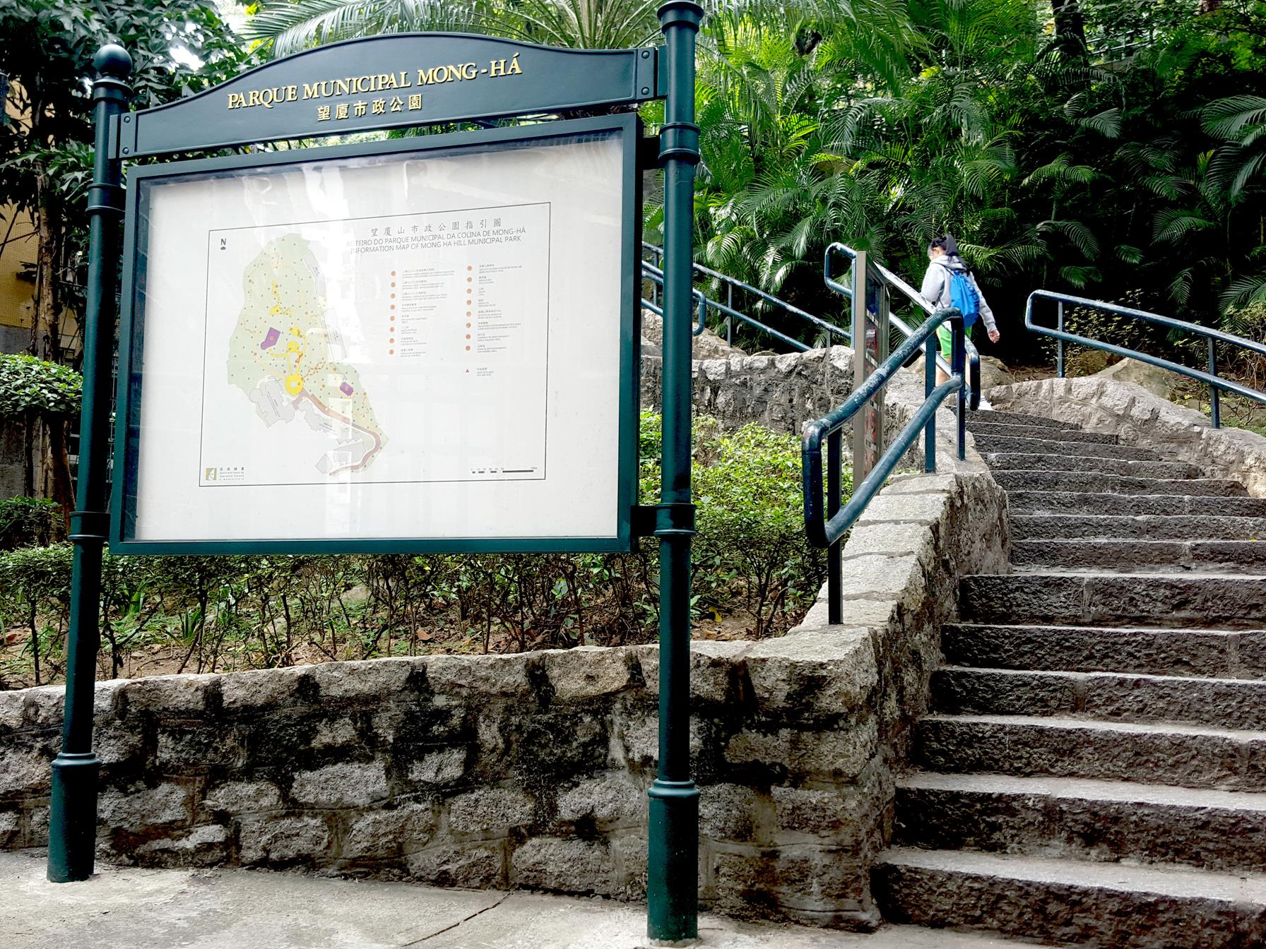 Mong Ha Hill Municipal Park